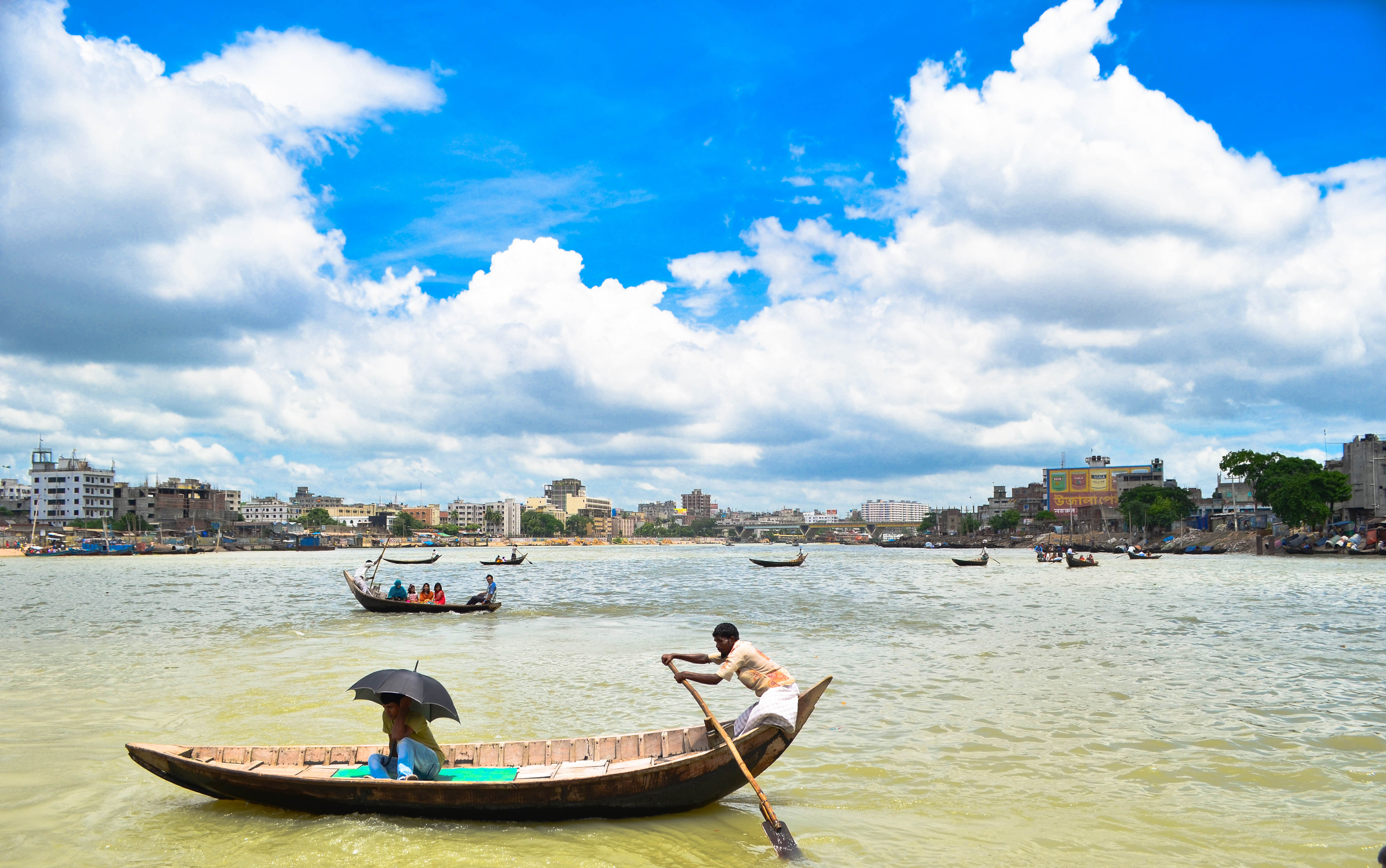 Dhaka old river Buriganga